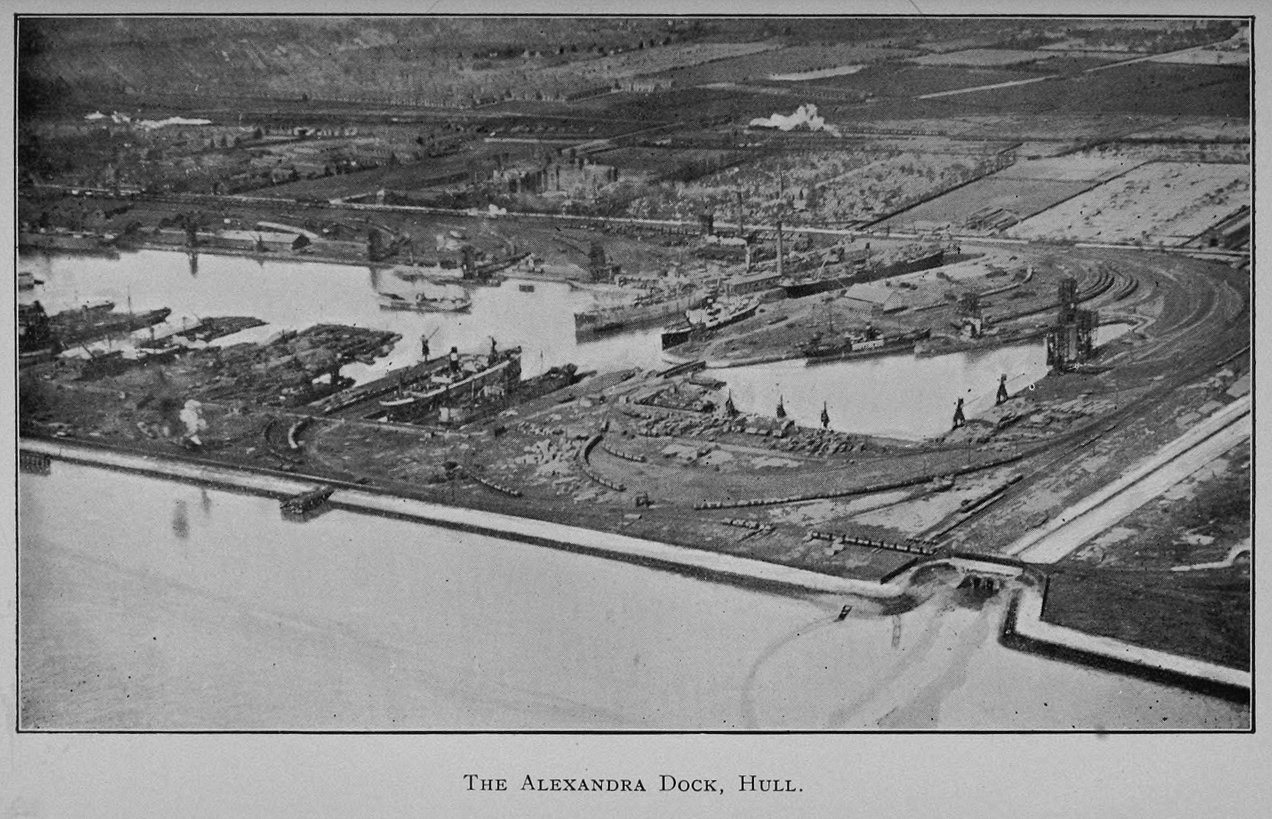 Alexandra dock, Hull View from ~SE, outfall of Holderness drain bottom right